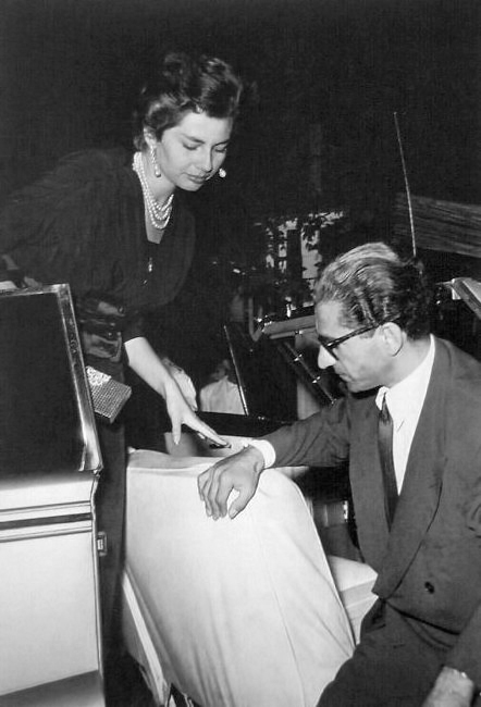 Mohammad-Reza Pahlavi and Soraya Esfandiary Bakhtiary